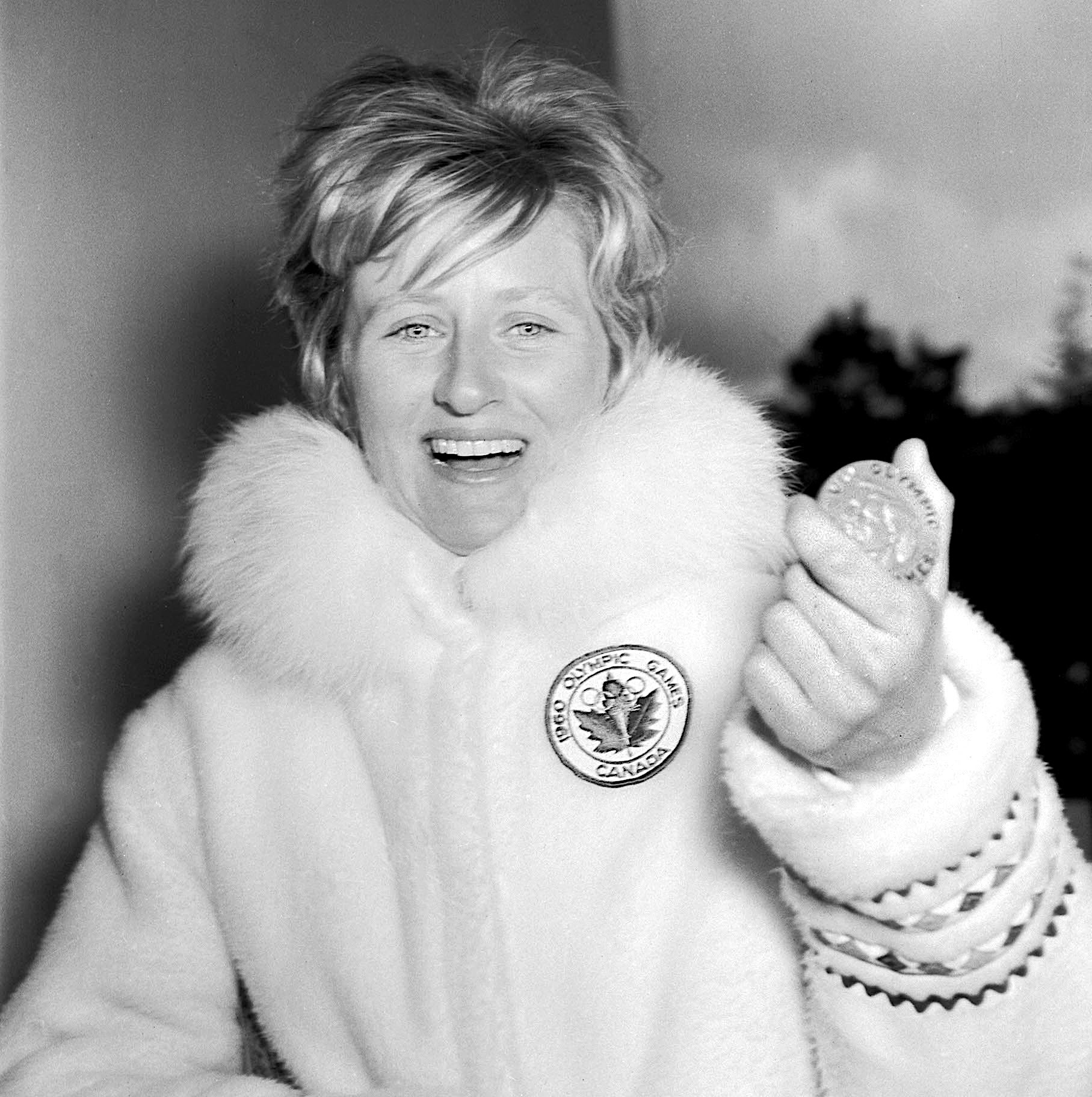 Miss Anne Heggtveit shows her skiing gold medal in slalom won in Squaw Valley